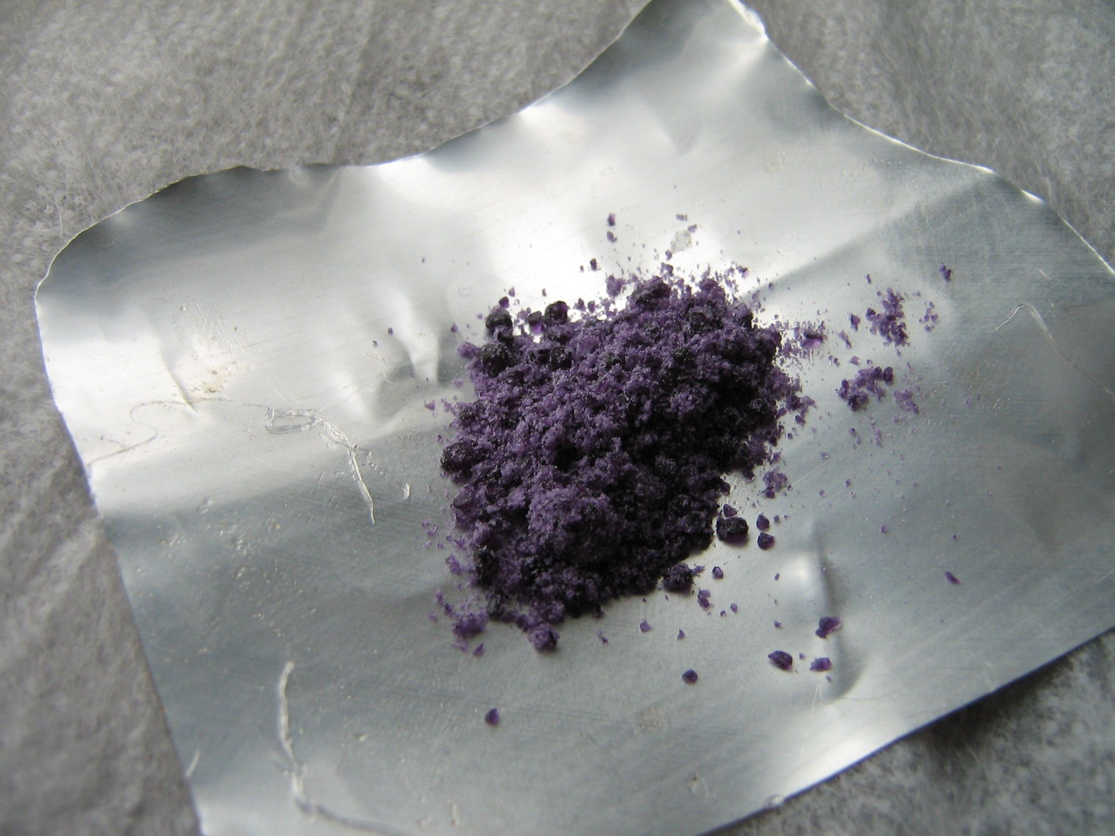 Chromium(III) Potassium Sulfate - crystals